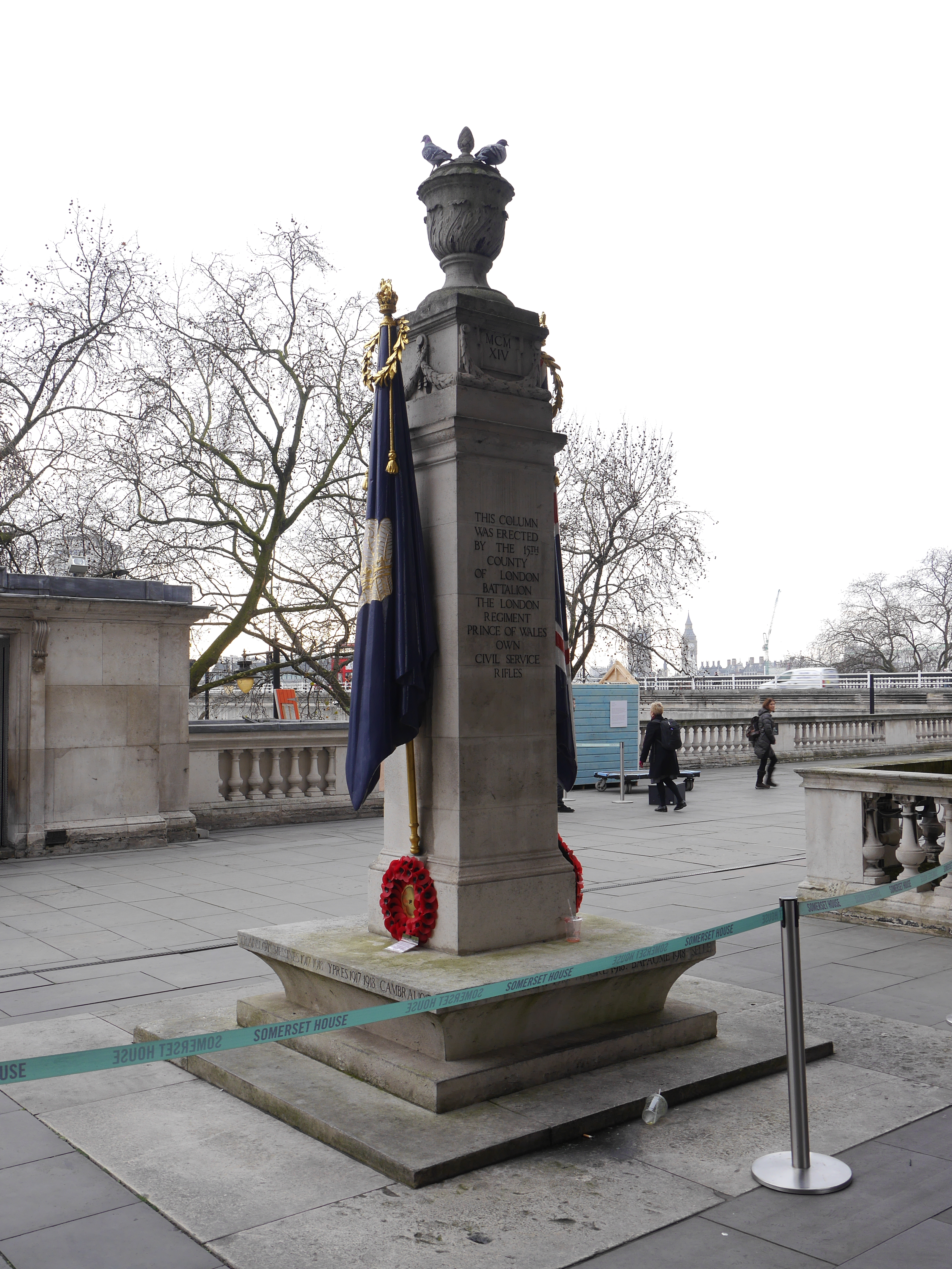 The Civil Service Rifles War Memorial on the Riverside Terrace of Somerset House, photographed on 14 December 2015. This image is the view from the northeast.